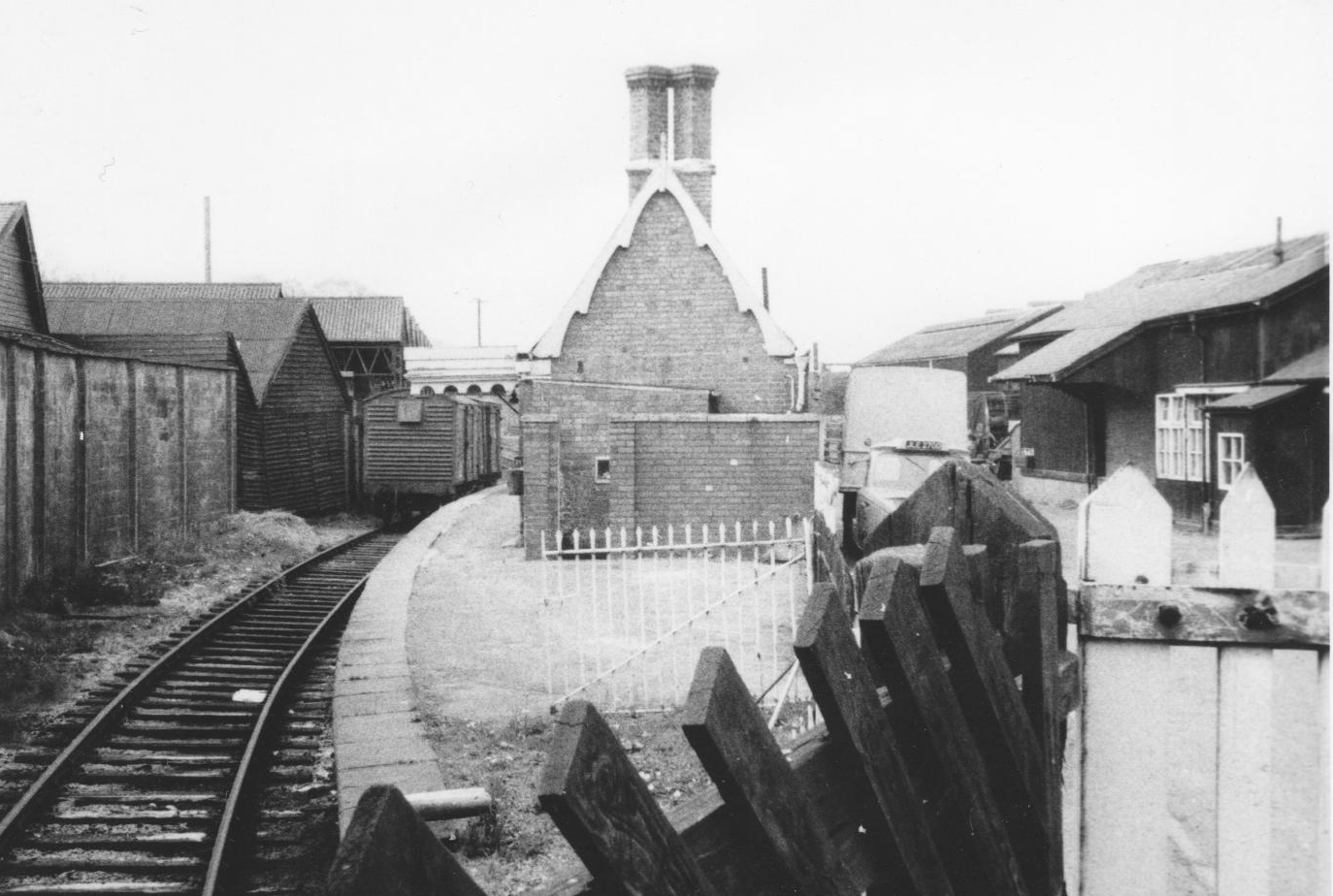 Dursley railway station, Gloucestershire, England in the late 1960s after the closure of the railway branch from Coaley Junction